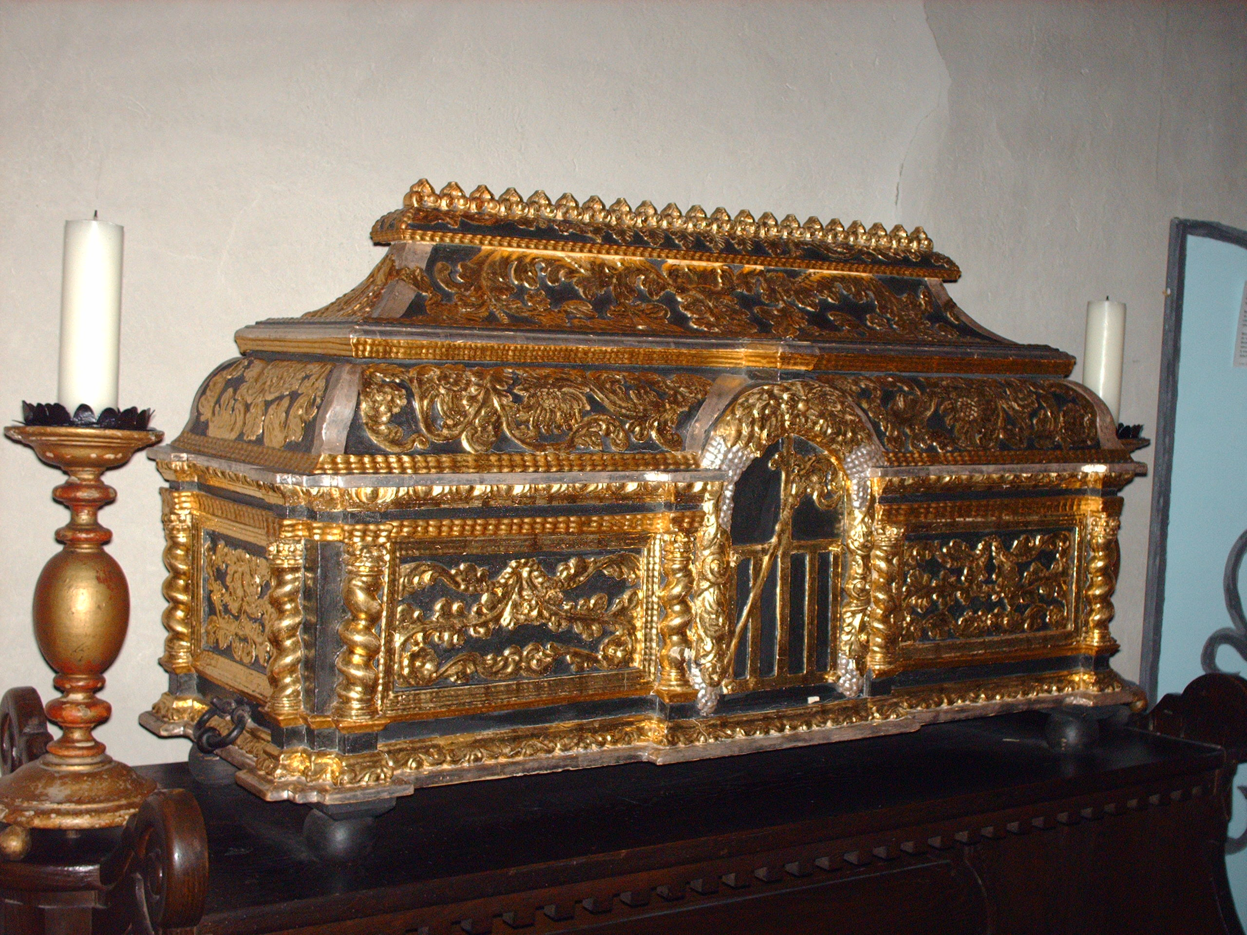 Benedicta’s shrine, Arnsberg, Germany check usage